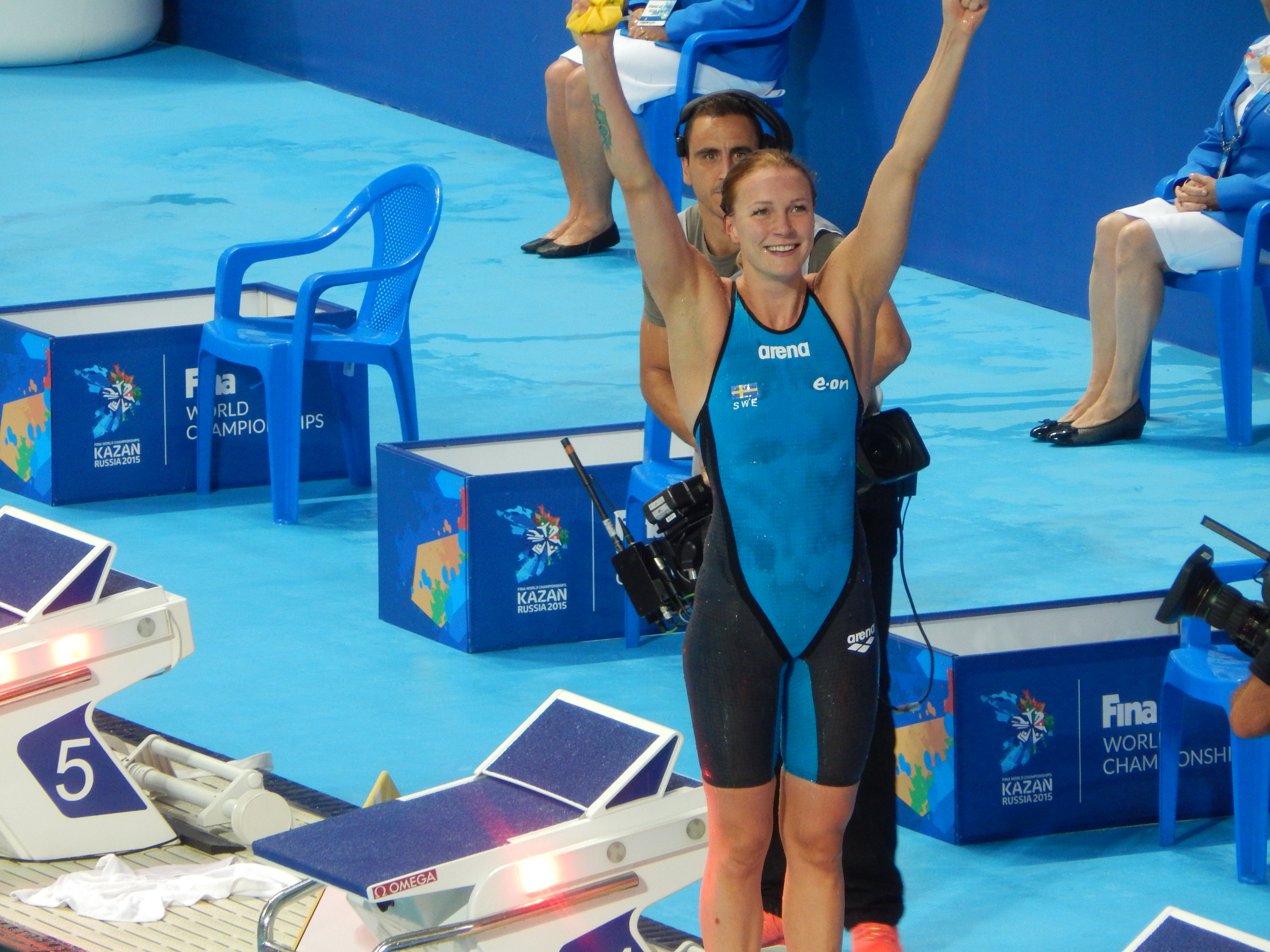 Sarah Sjöström after her amazing win in 100m butterfly final (WR)